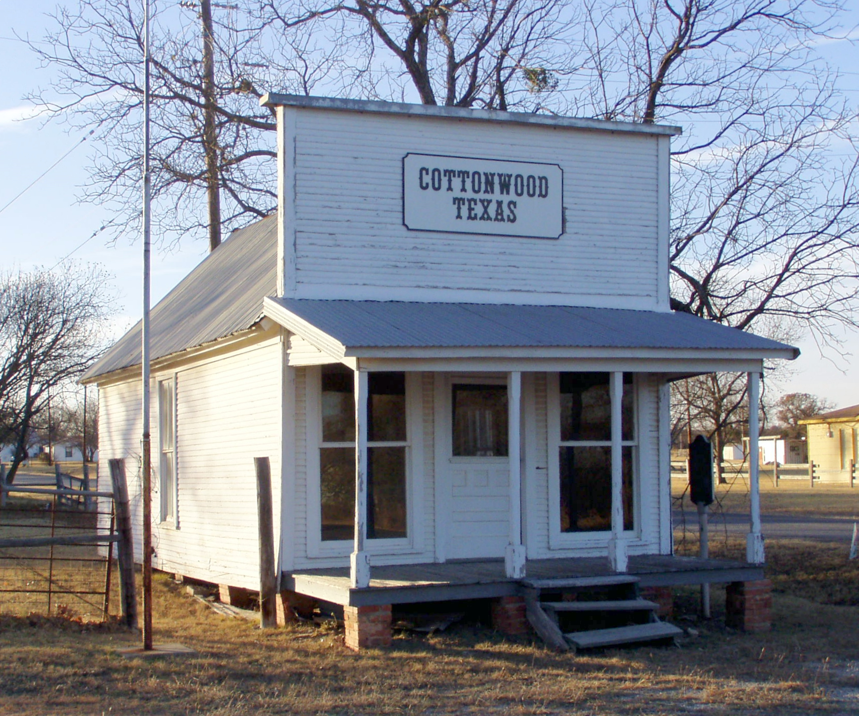 This is a photo of the old building in Cottonwood, Texas which housed the bank and post office of that town. Taken by Benjamin Bruce on December 3rd, 2005.